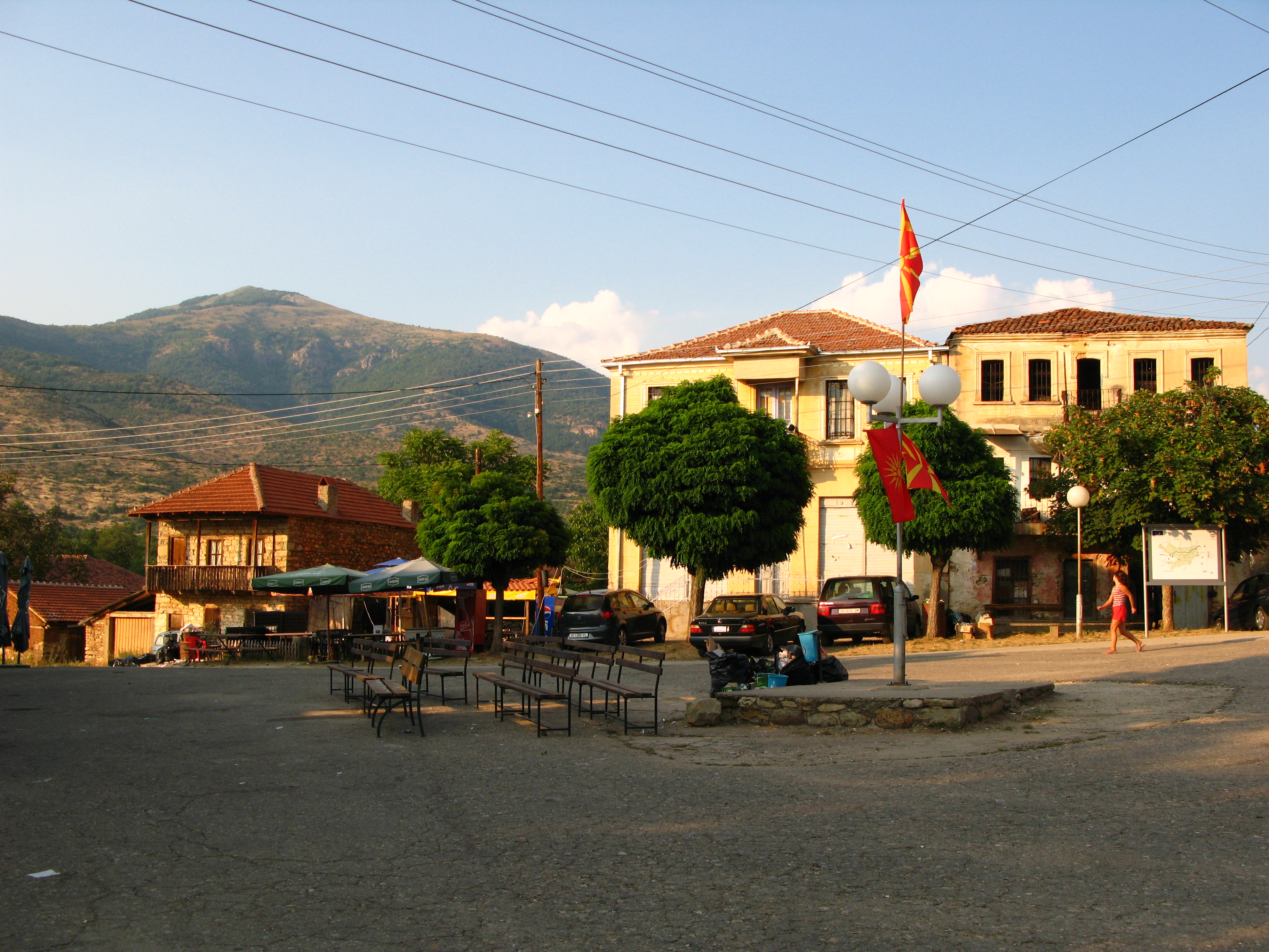 Village Ljubojno, Resen district, Macedonia.